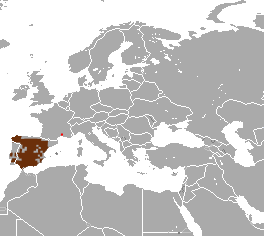 Granada Hare (Lepus granatensis) range (brown - native, red - introduced)